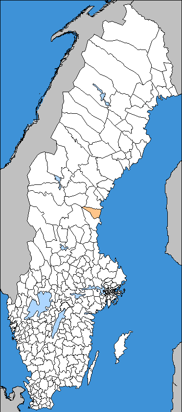 Nordanstig Municipality in Sweden